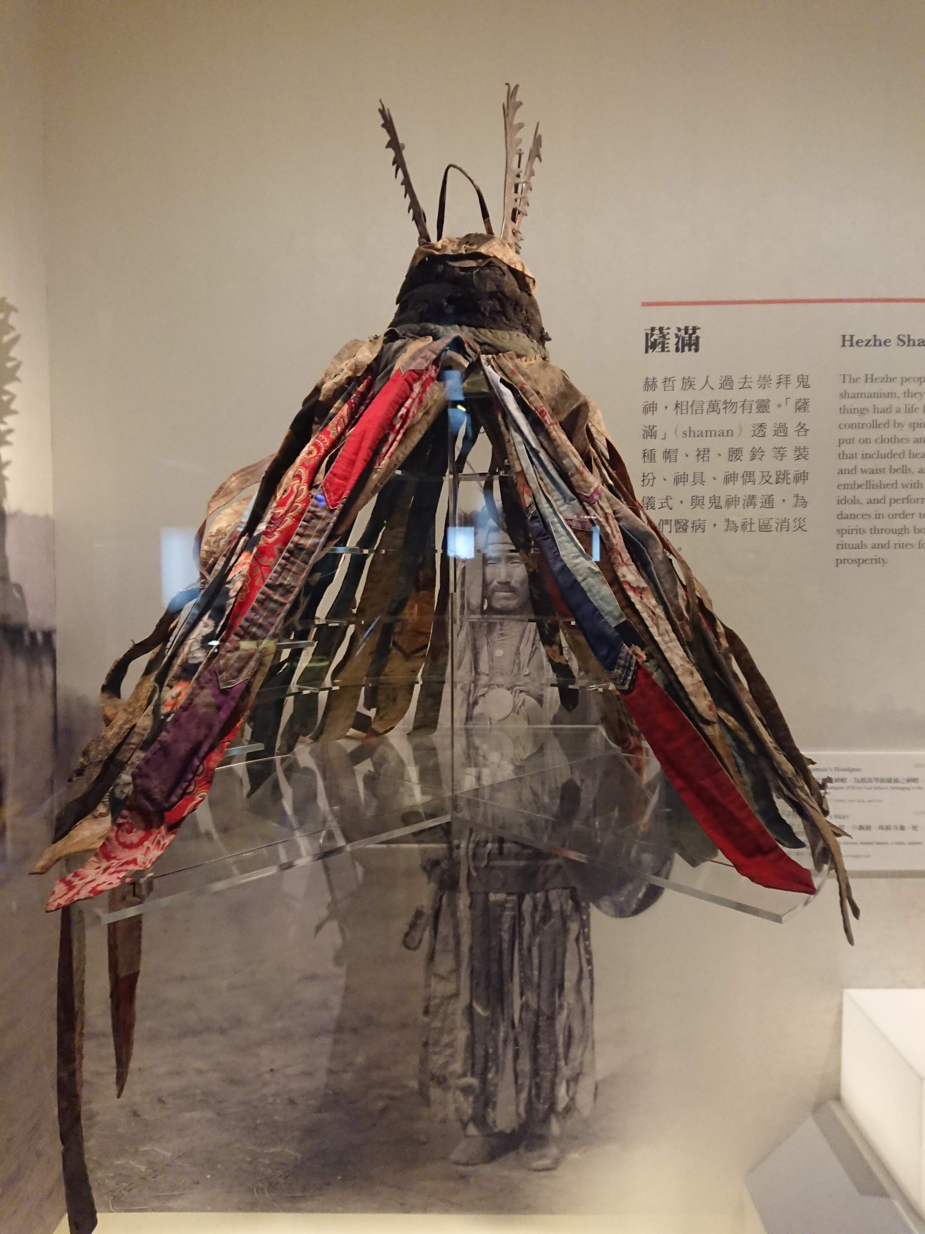 攝自中研院民族學博物館